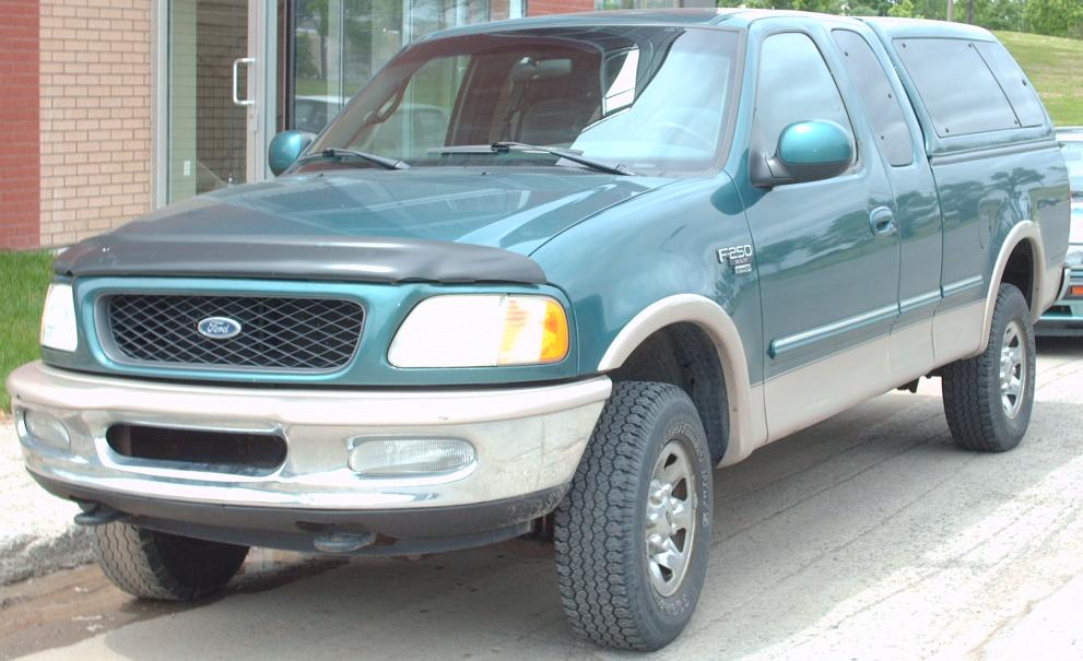 1997-1998 Ford F-250 LD Extended Cab photographed in Montreal, Quebec, Canada.